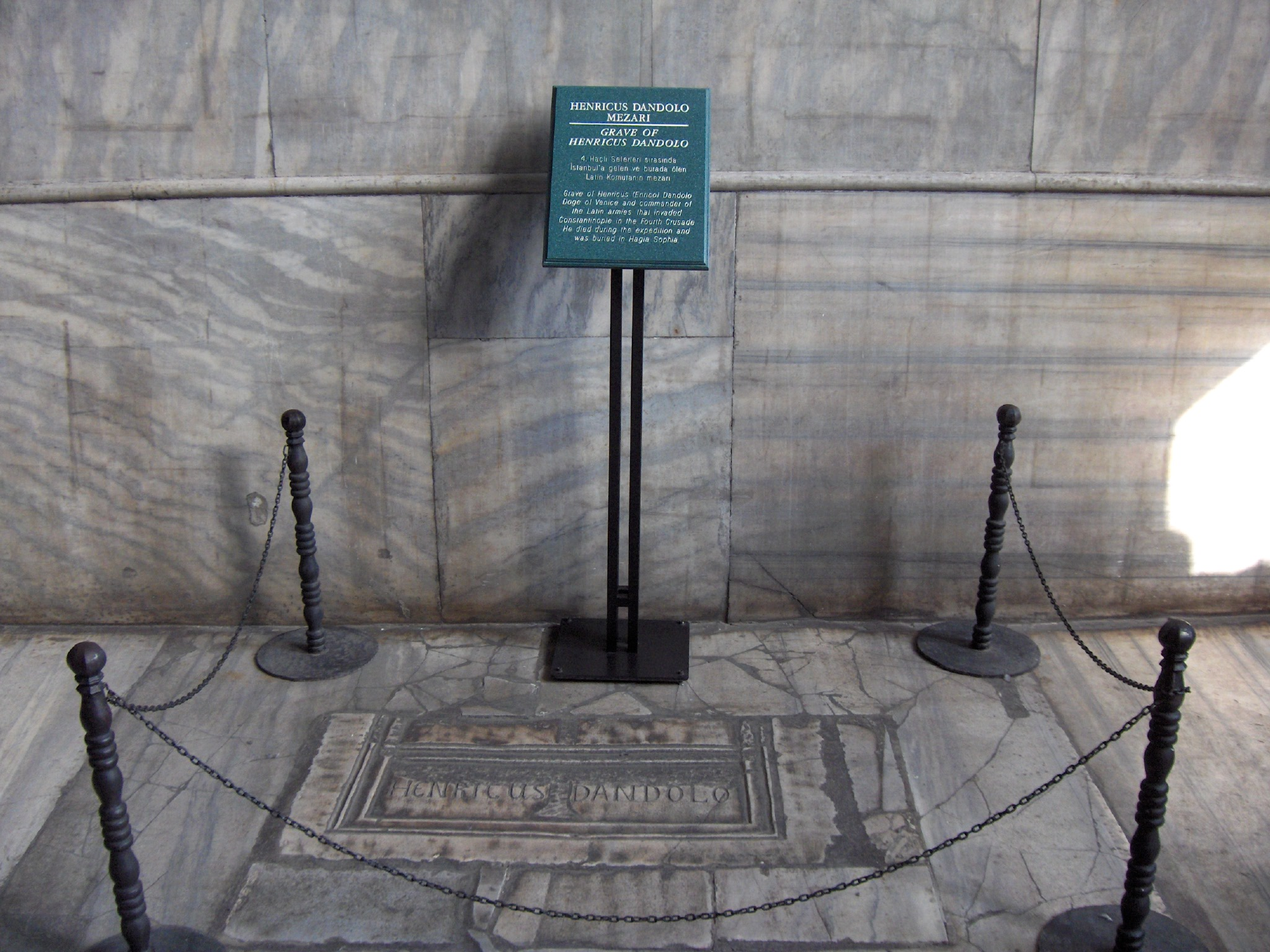 Hagia Sophia ; tomb of the Venetian doge Henricus Dandolo; Istanbul, Turkey